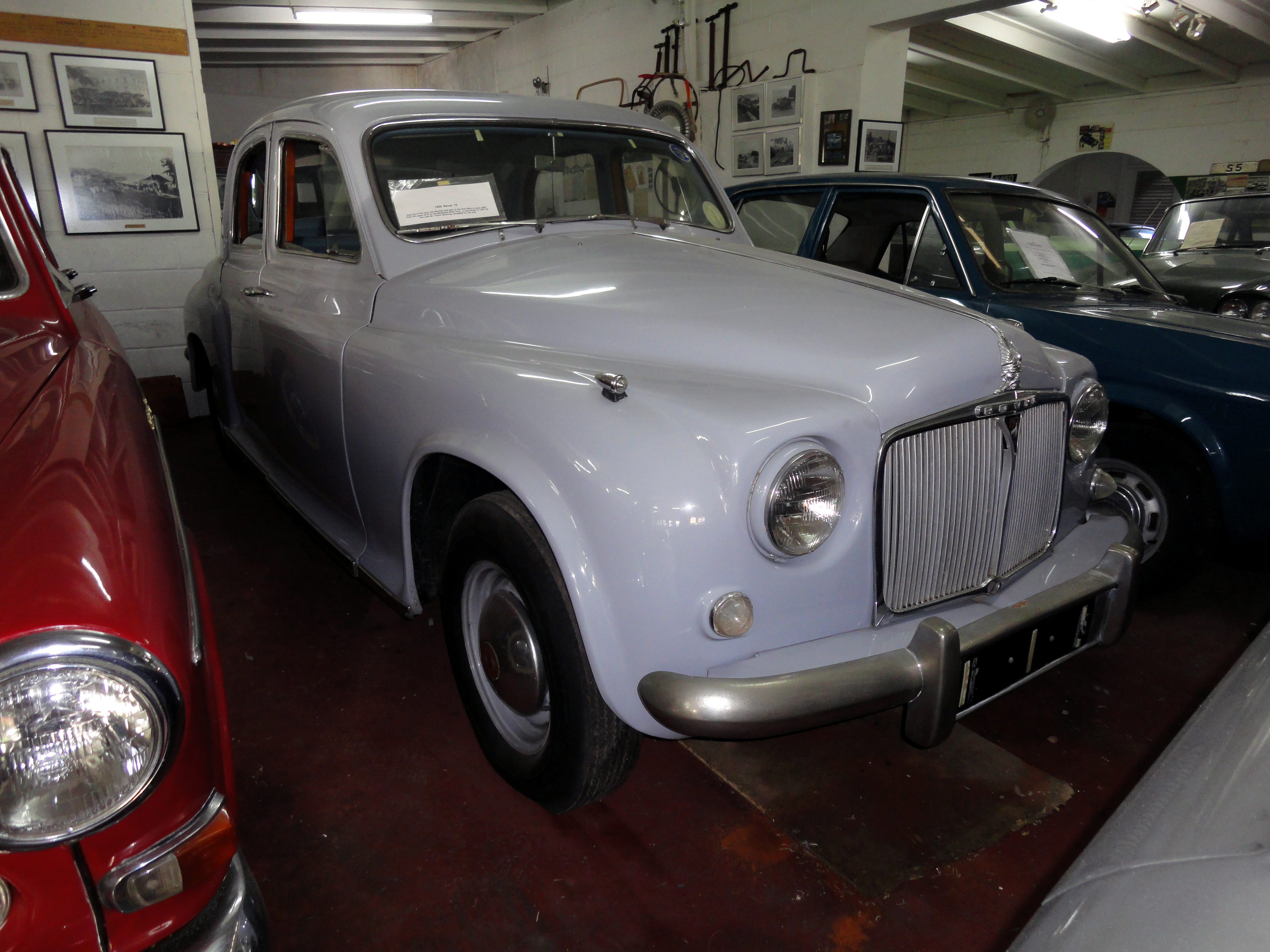 Mallalieu Motor Collection,Nov 2011